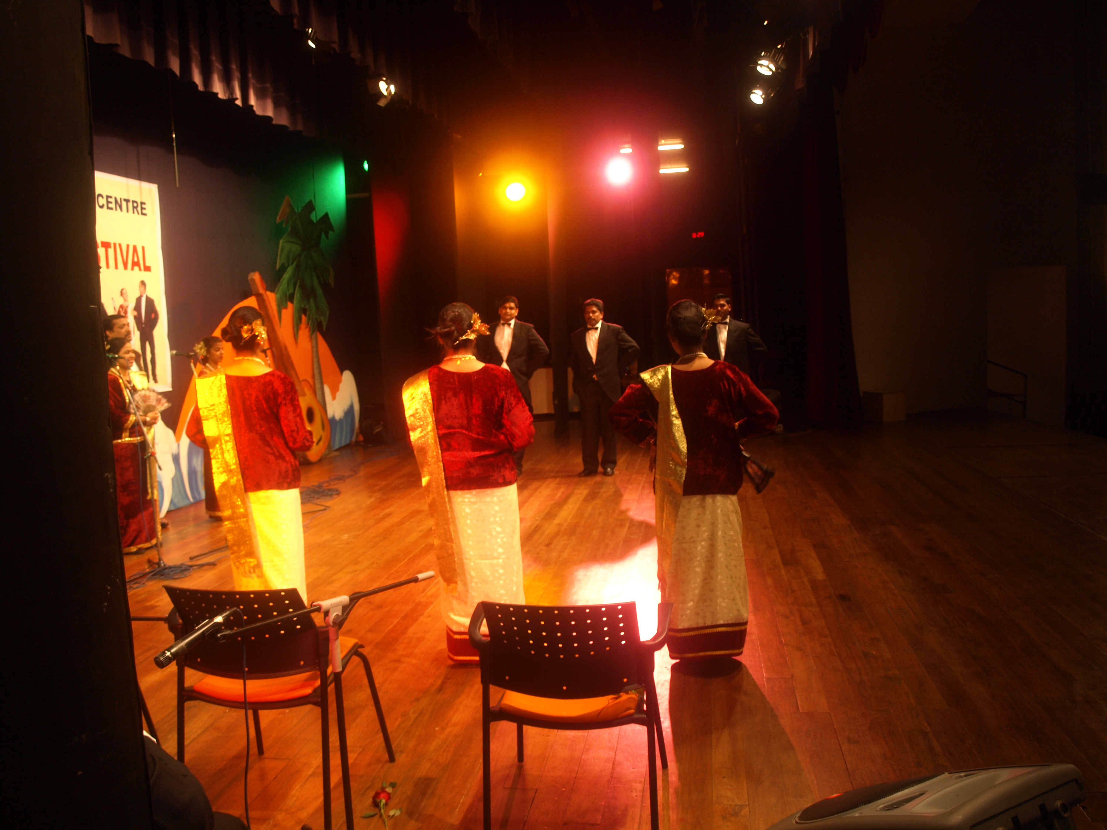 Mando dancers on stage, Goa. Photo by Frederick Noronha, +91-9822122436.